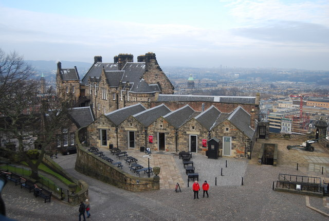 Edinburgh Castle - Middle Ward. NT2573 :: Edinburgh Castle - Middle Ward, near to Edinburgh, Great Britain